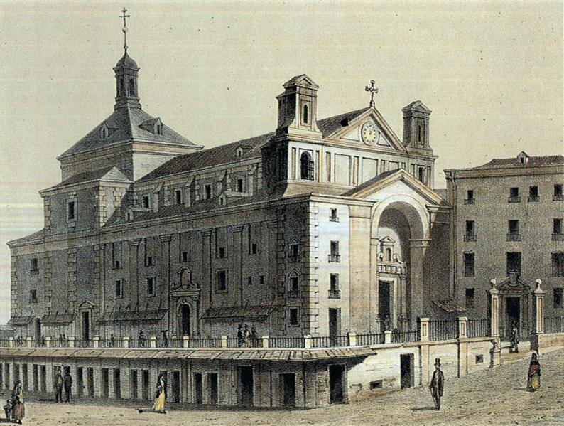 Old Convent of San Felipe el Real, in Puerta del Sol (Madrid, Spain). It was built in 1546 and destroyed in 1838.